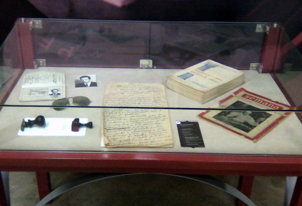 muestra del museo de criminalistica UN